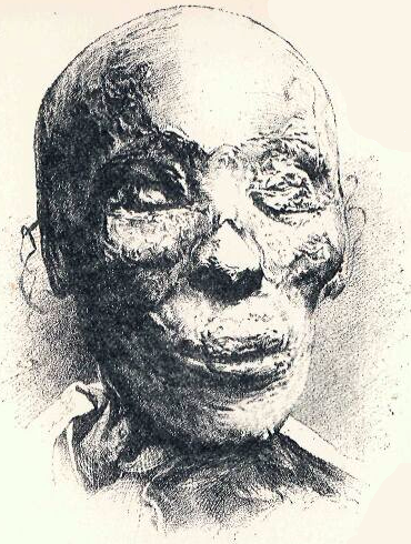 Mummified head of Thutmose II